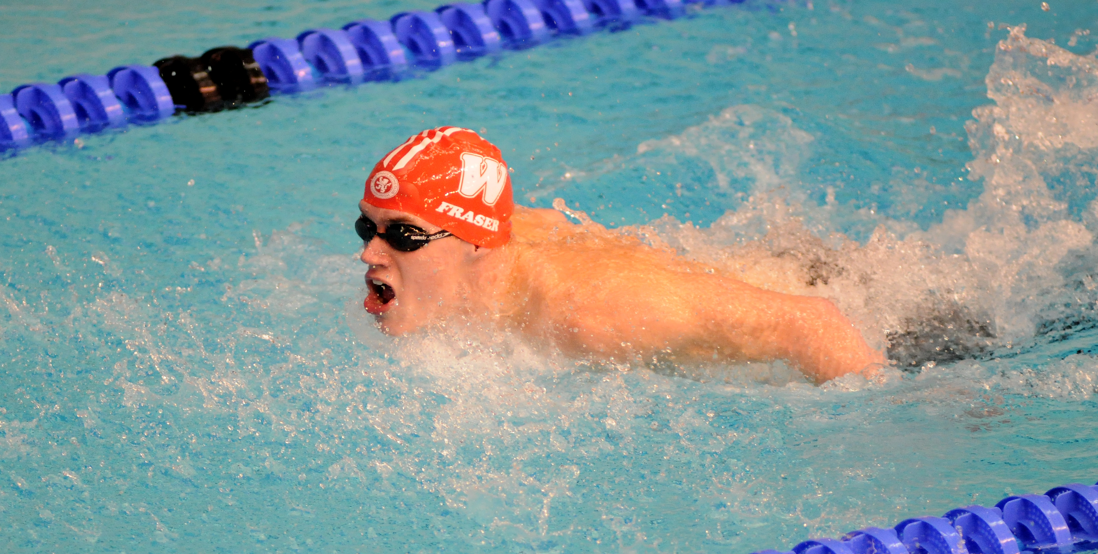 Picture of the swimmer Sean Fraser swimming in 2008